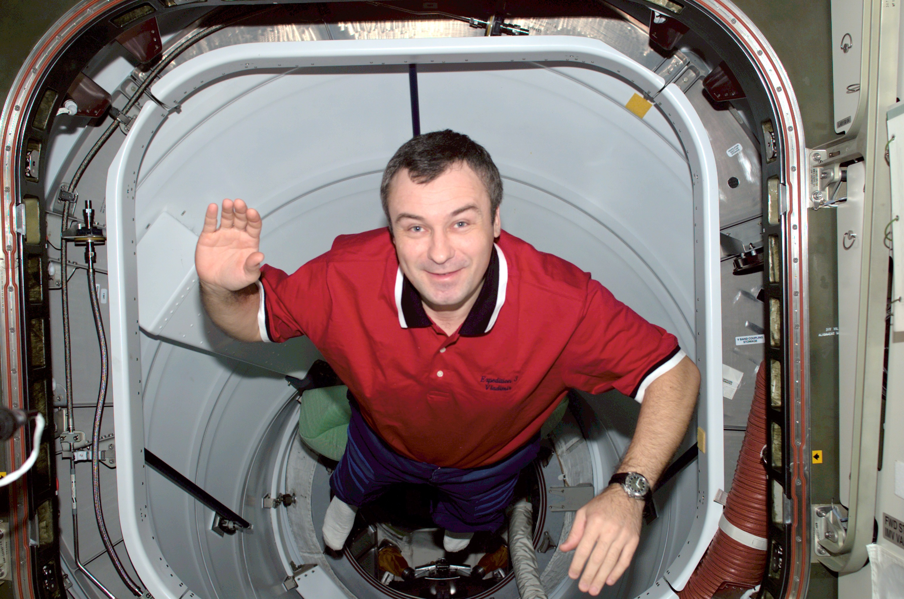 Cosmonaut Vladimir N. Dezhurov, Expedition Three flight engineer, floats through the Pressurized Mating Adapter 2 (PMA-2) on the International Space Station (ISS). A crewmate in the Destiny laboratory captured the image on a digital still camera.